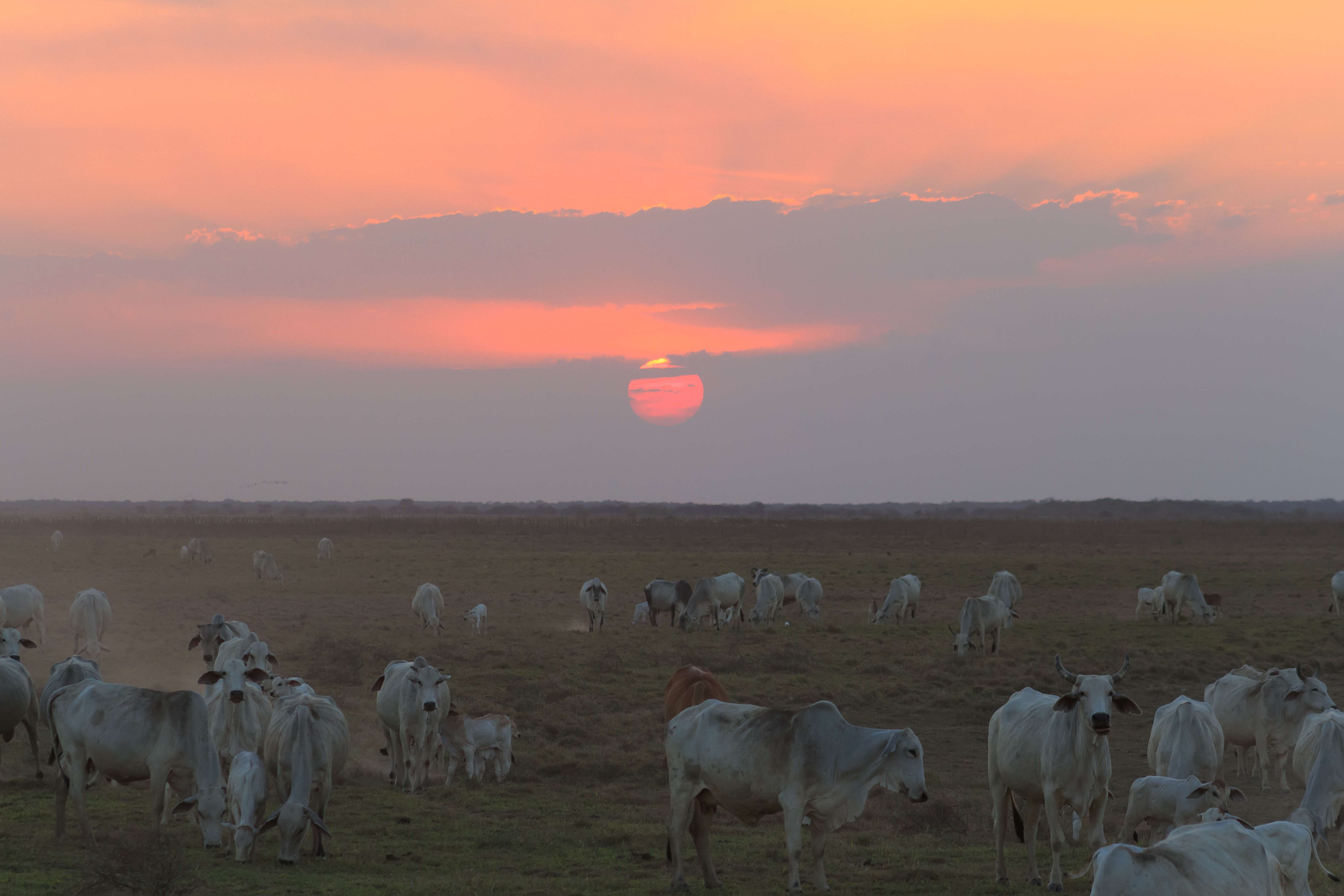 Sunset at the Hato El Cedral, Apure, Venezuela